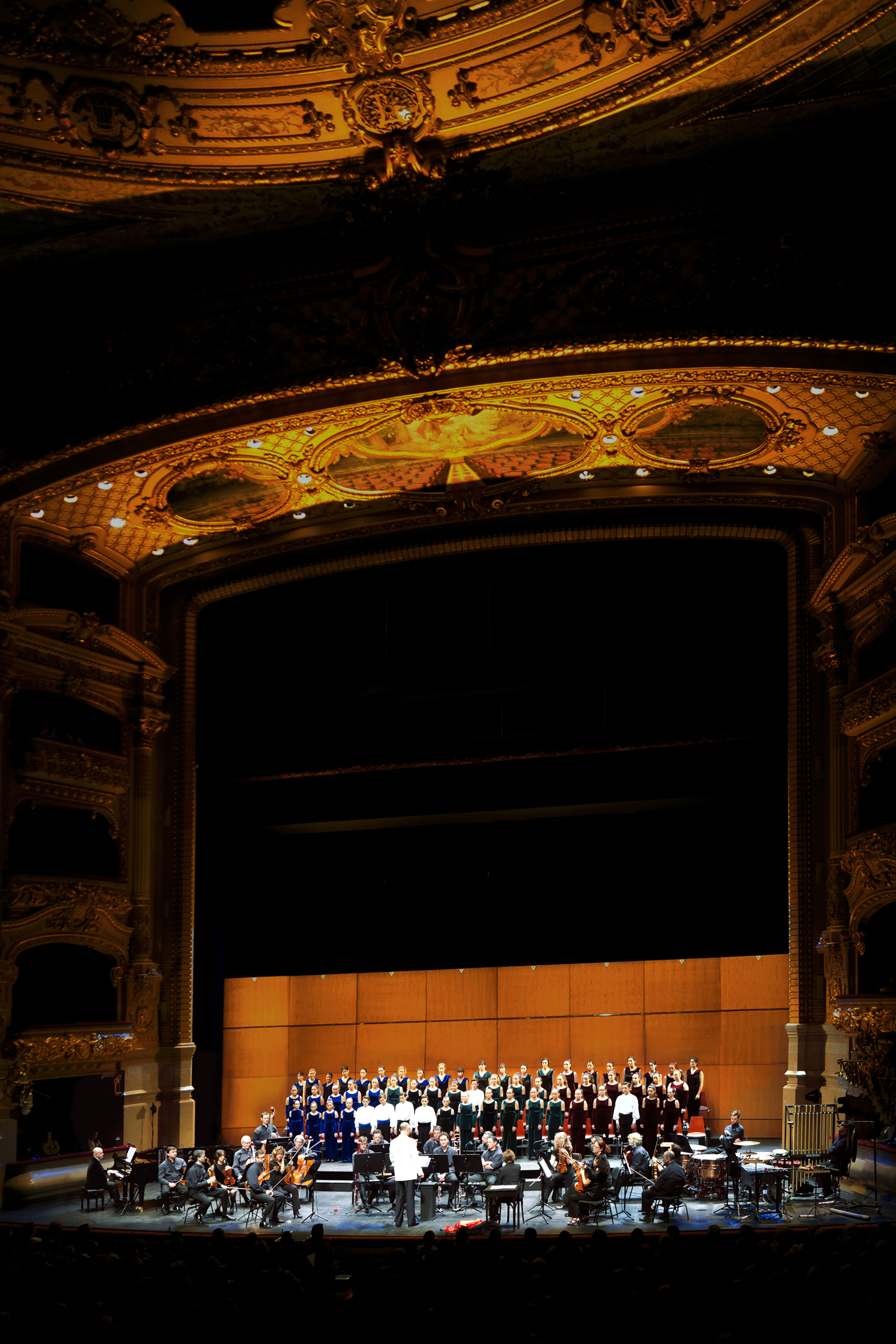 Els pastorets representats pel Cor Vivaldi